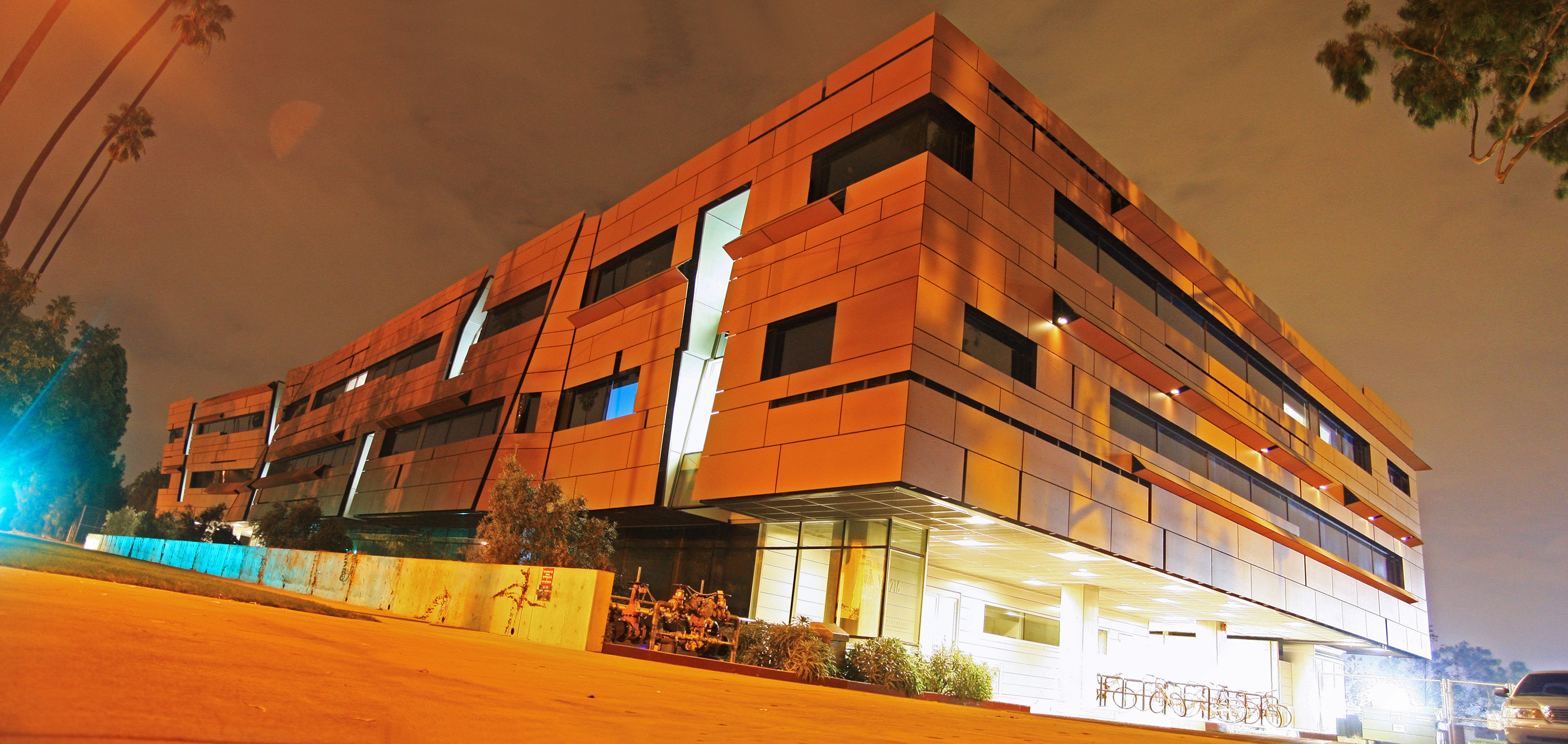 Caltech's Newest Shining Star: The Cahill Center for Astronomy and Astrophysics